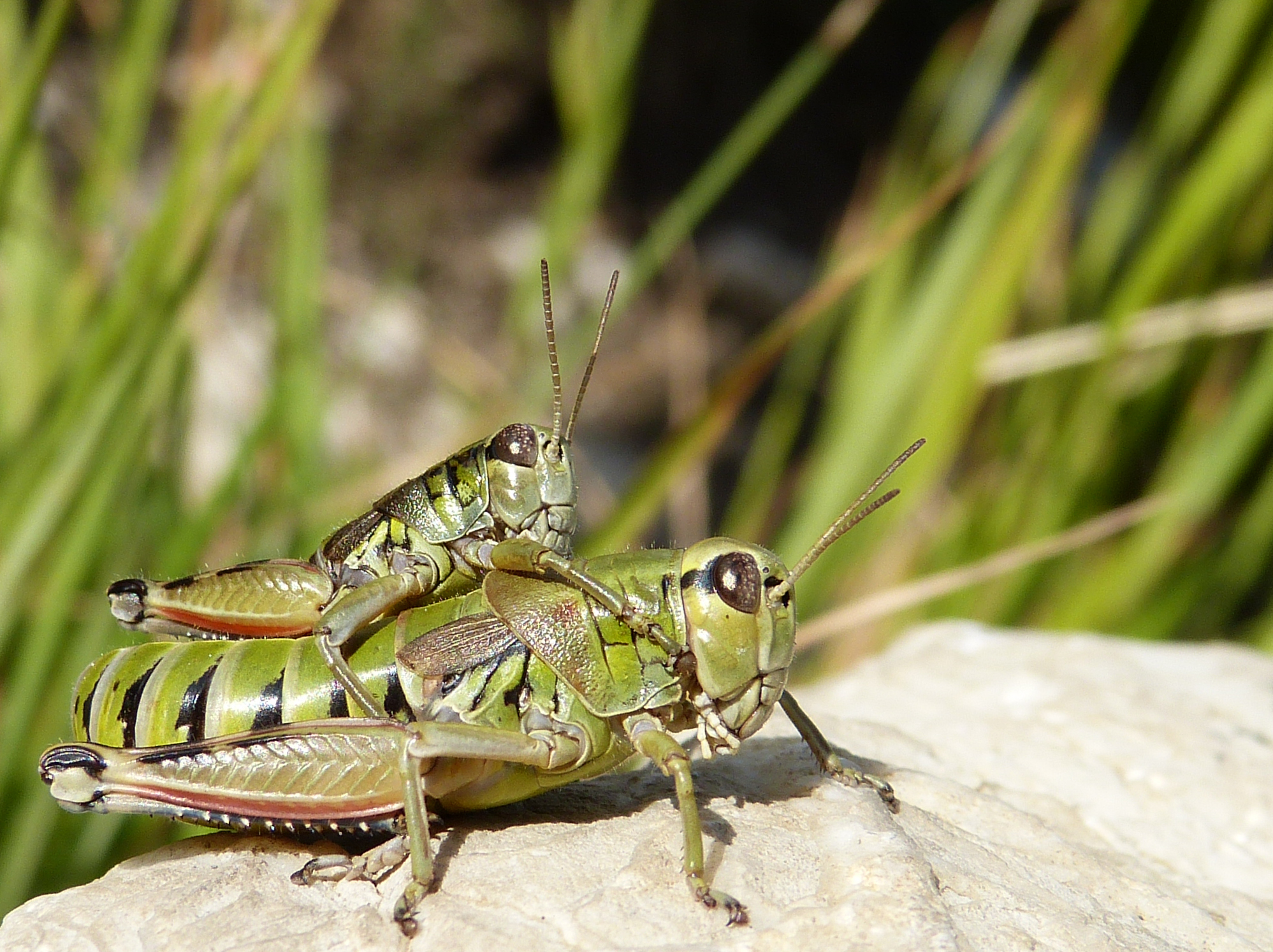 Orthoptera of the Acrididae family photographed during mating in Monti Sibillini National Park (Q1425191)